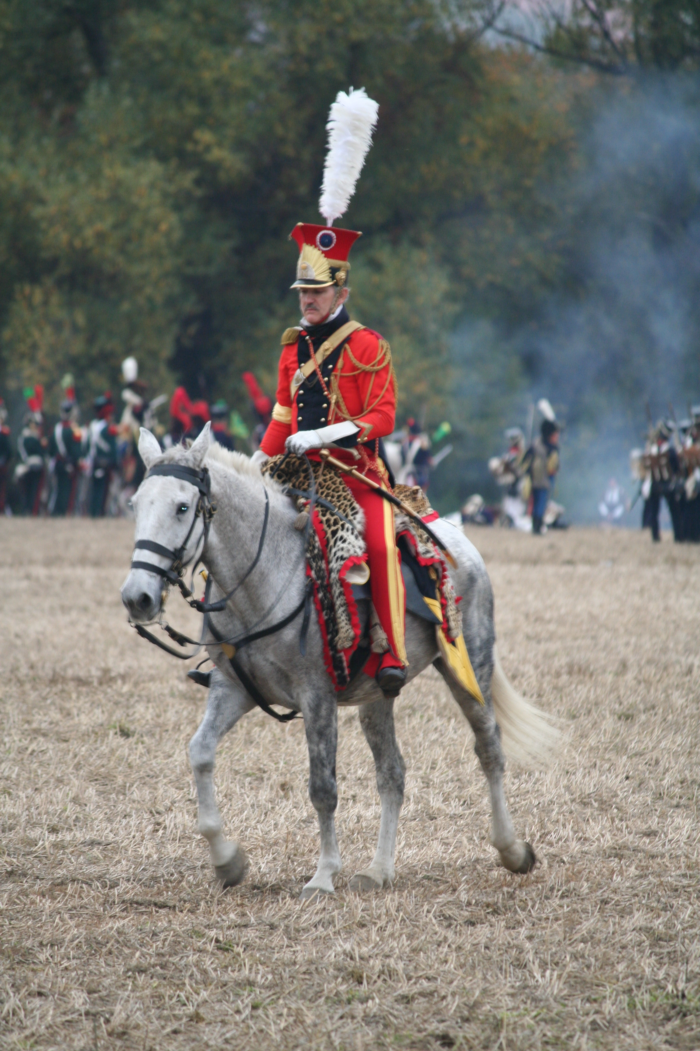 Reenactment of the Battle of Leipzig 2013